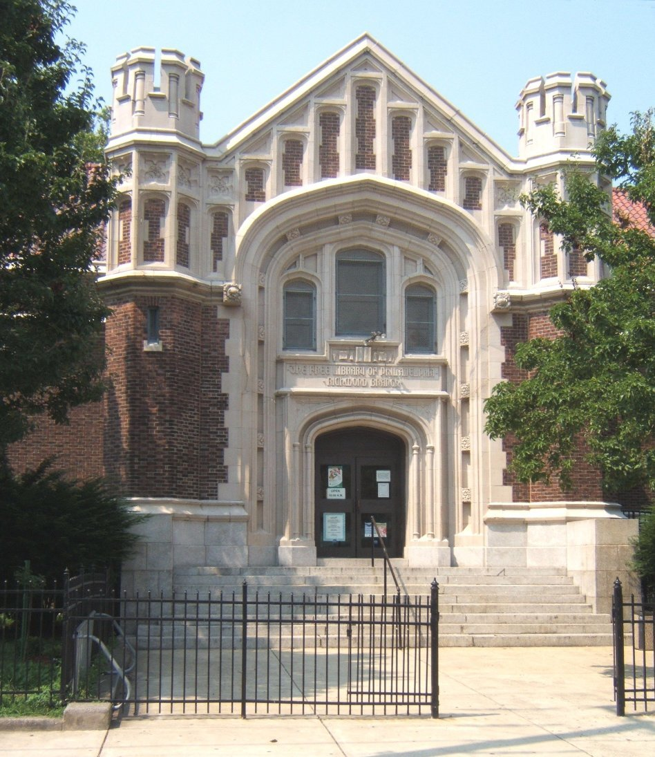 Free Library of Philadelphia, Richmond Branch, 2987 Almond Street, Philadelphia, PA 19134